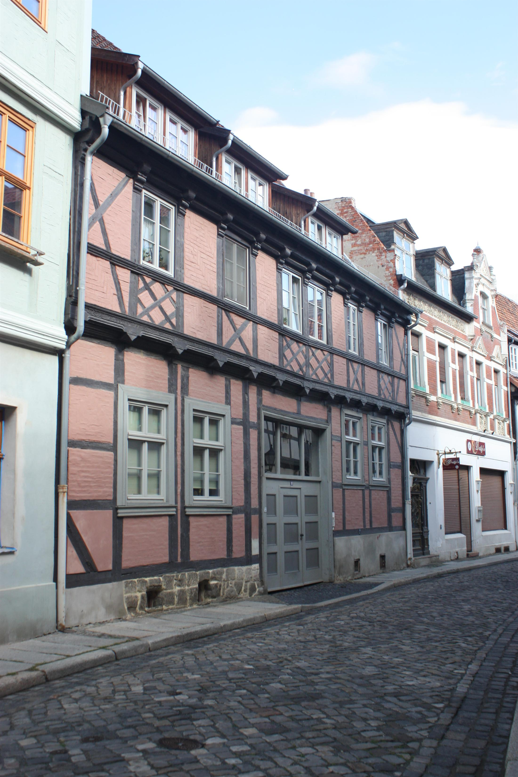 This is a photograph of an architectural monument.It is on the list of cultural monuments of Quedlinburg Hohe Straße 31